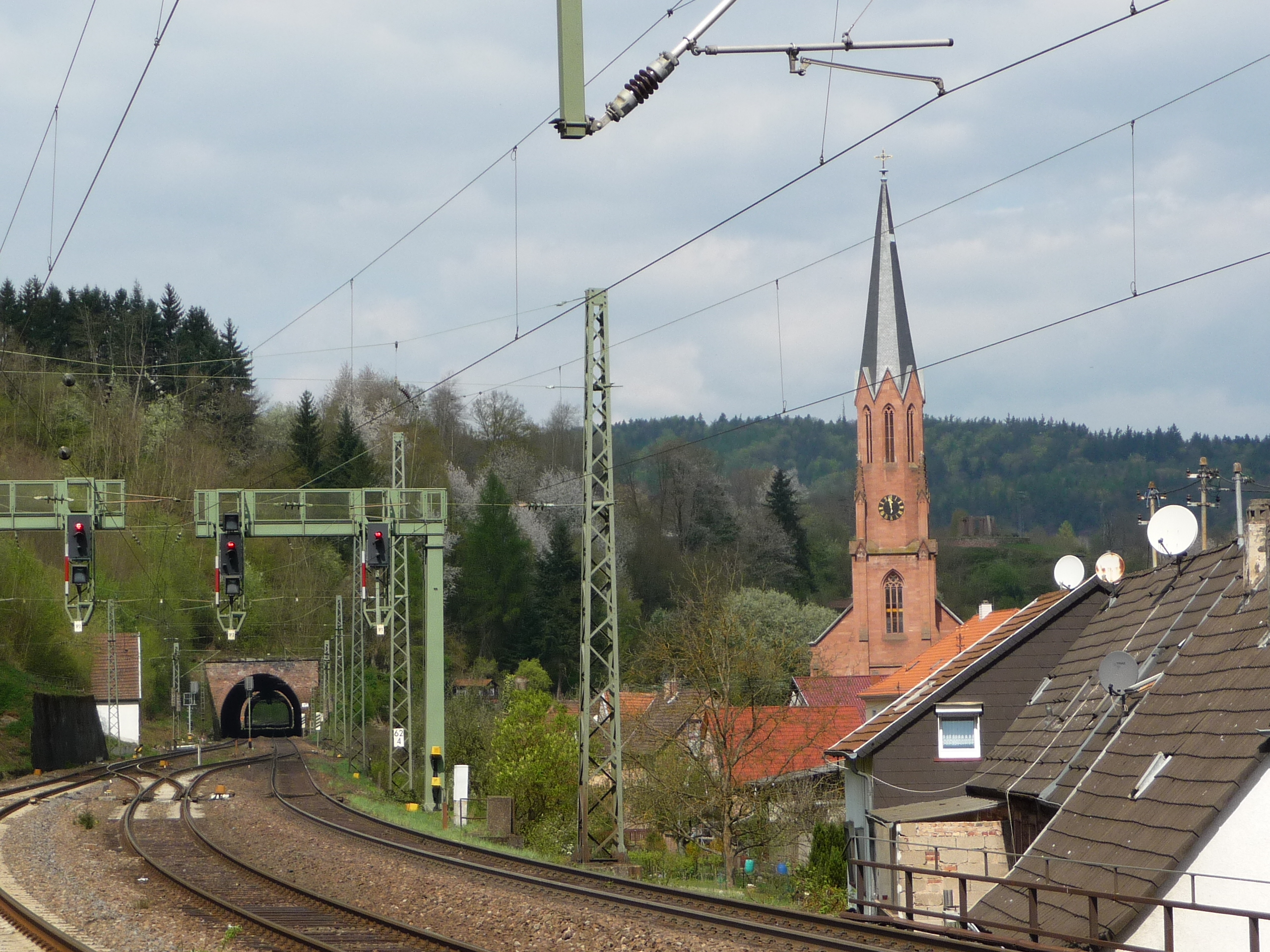 Weidenthal